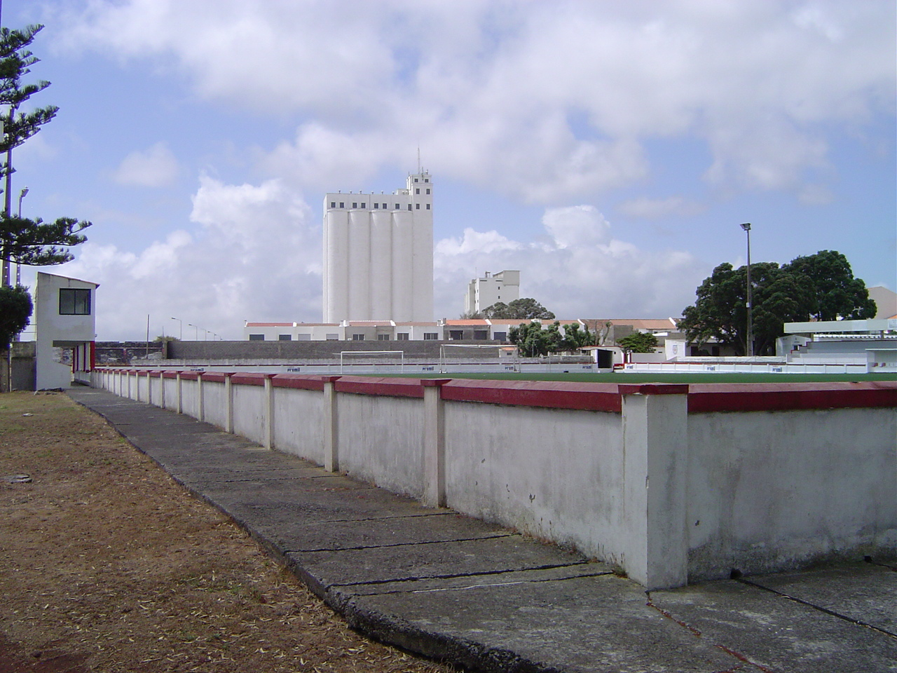 A view of the Factory which represents the roots of CD Operário, a Portuguese football club based in Lagoa in the island of São Miguel in the Azores.